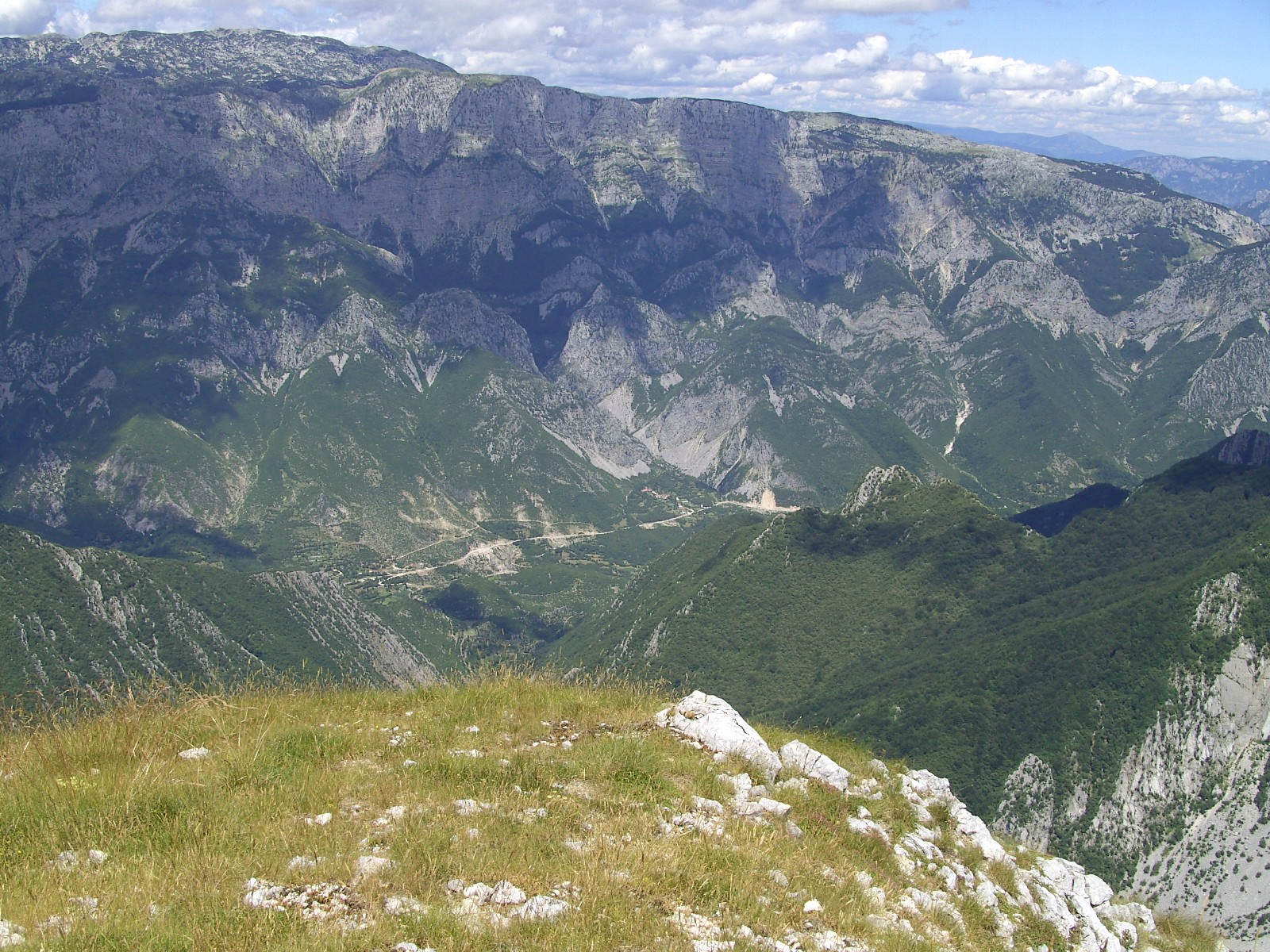 Dreznica river canyon in the Čabulja mountains, Bosnia and Herzegovina